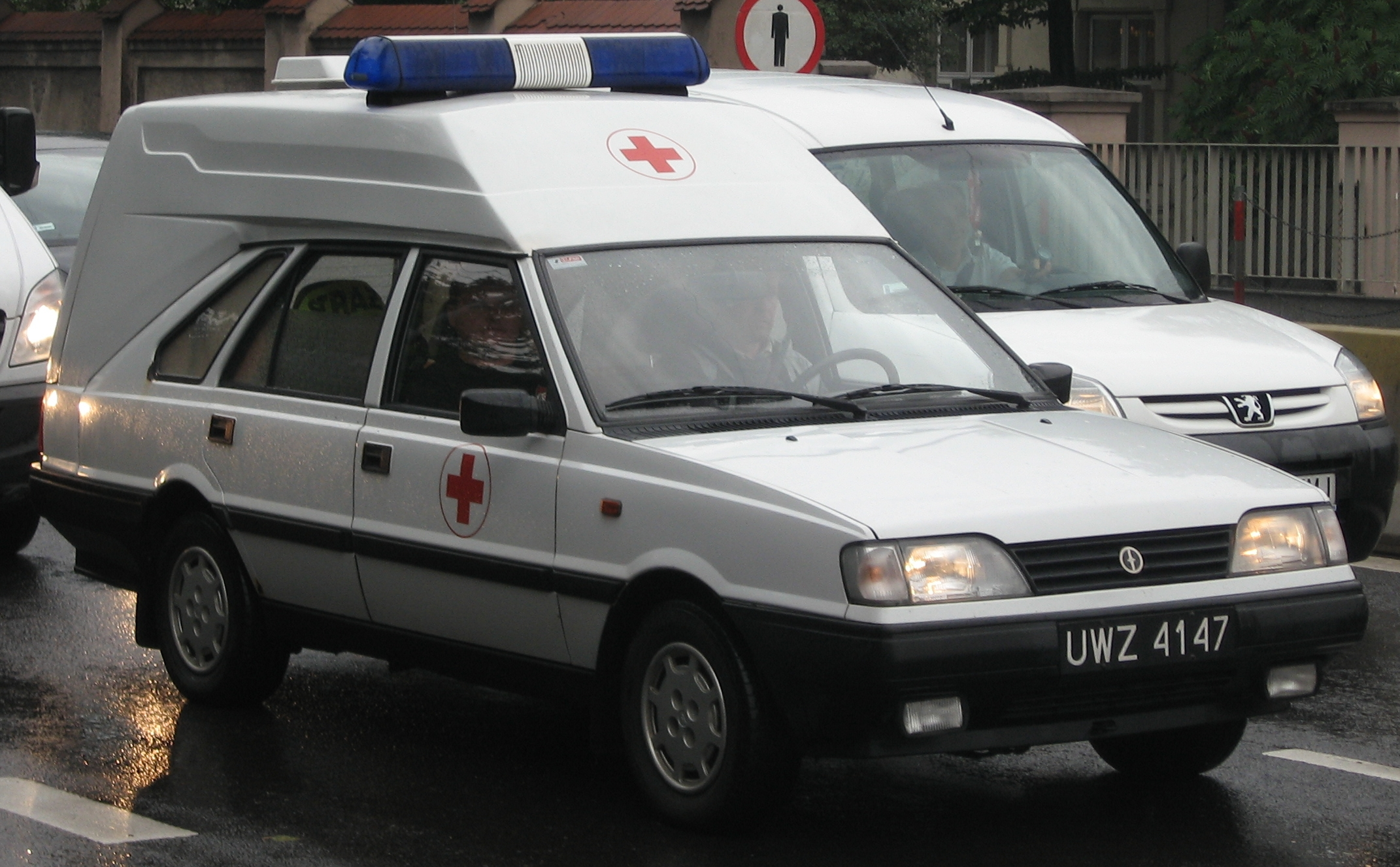 FSO Polonez Cargo 1.6 GLE-based military ambulance on Konopnickiej avenue in Kraków.